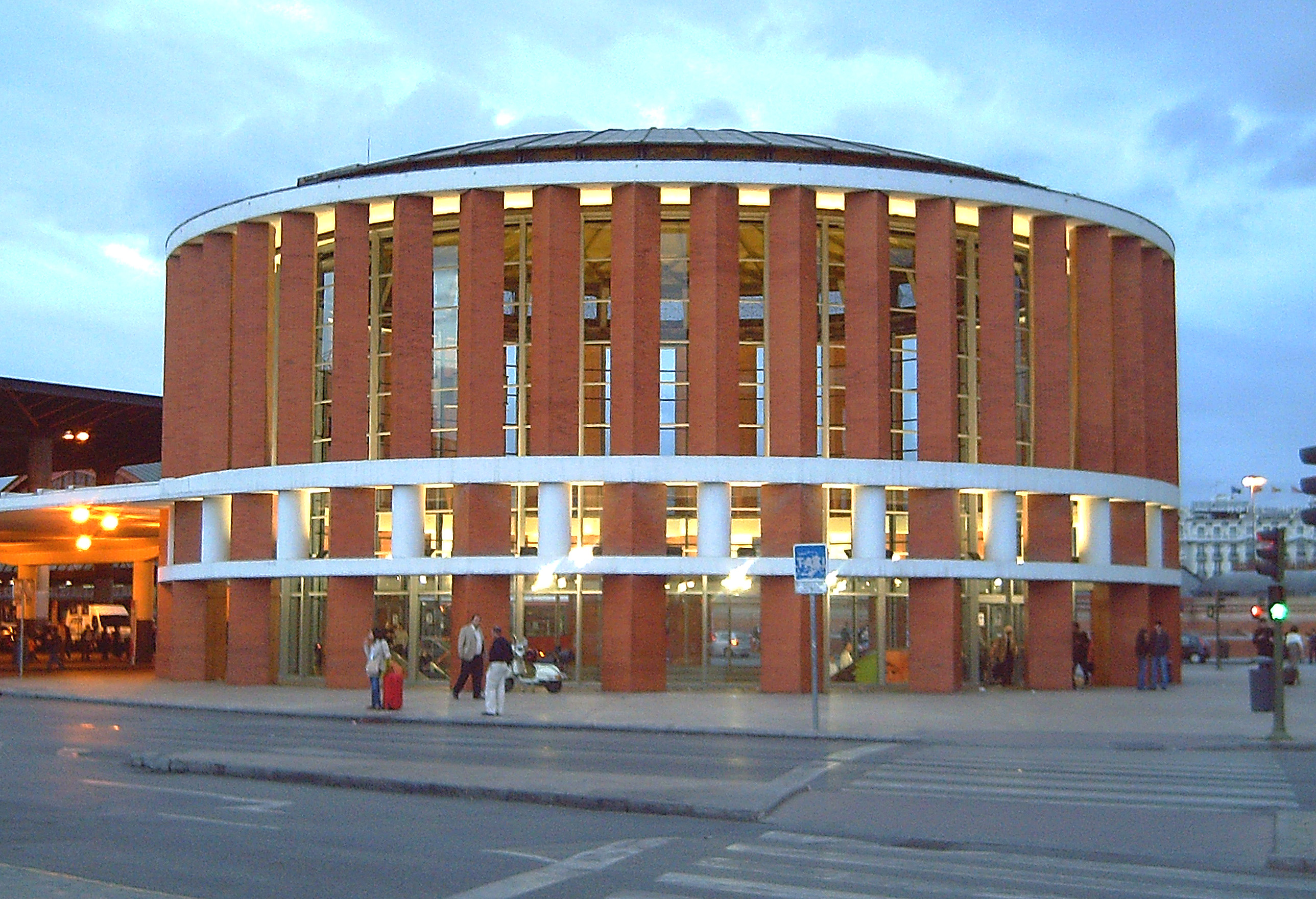 One of the entrances of the Atocha railway station in Madrid (Spain). Part of the extension projected by architect Rafael Moneo (born 1937) in 1985 and built between 1985 and 1992.